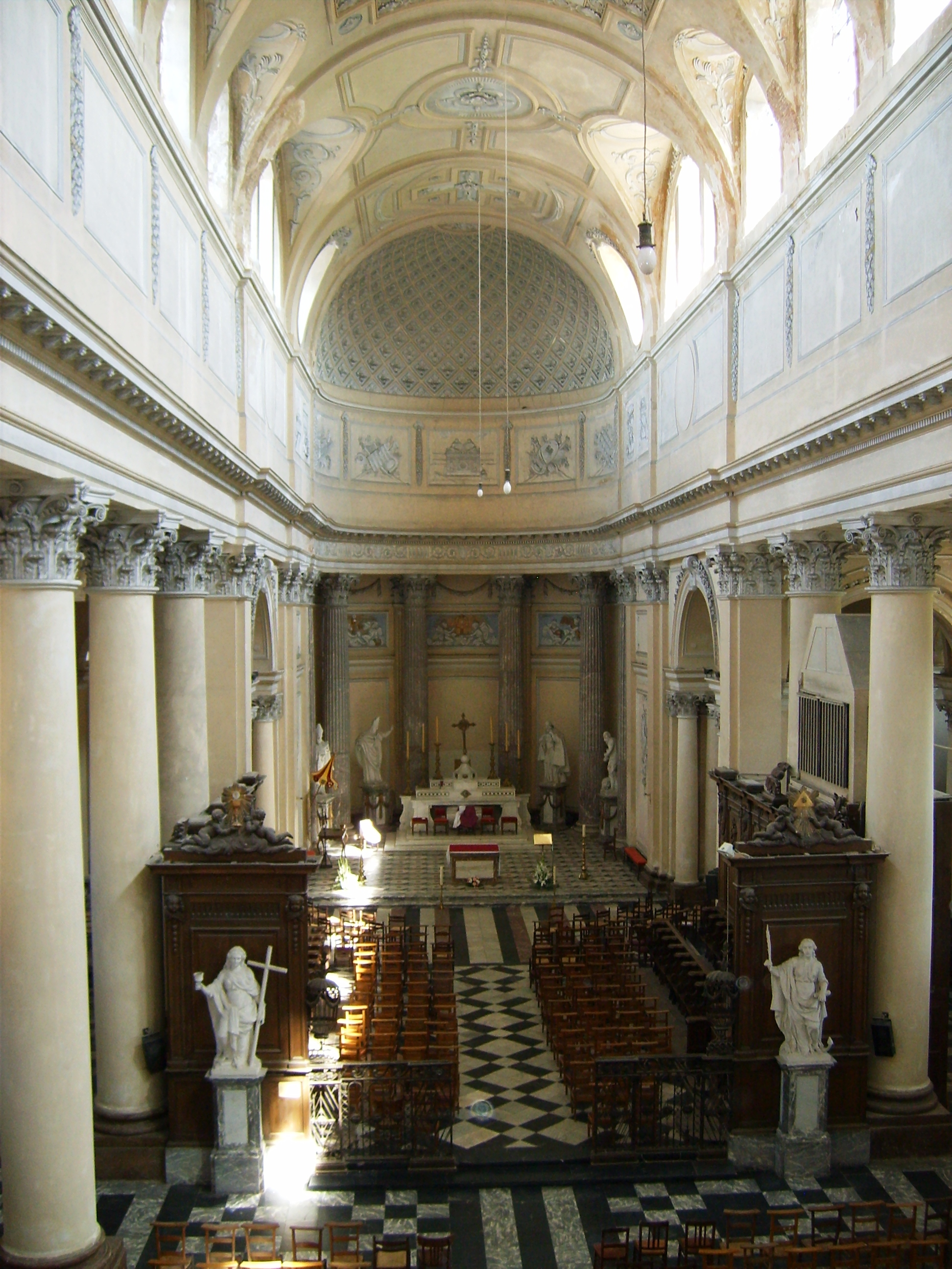 Bonne-Espérance Abbey, Vellereille-les-Brayeux (Belgium), nave and choir of Notre-Dame de Bonne-Espérance basilica (literally Our Lady of Good Hope), neoclassic abbey church (1776) designed by Laurent-Benoît Dewez.